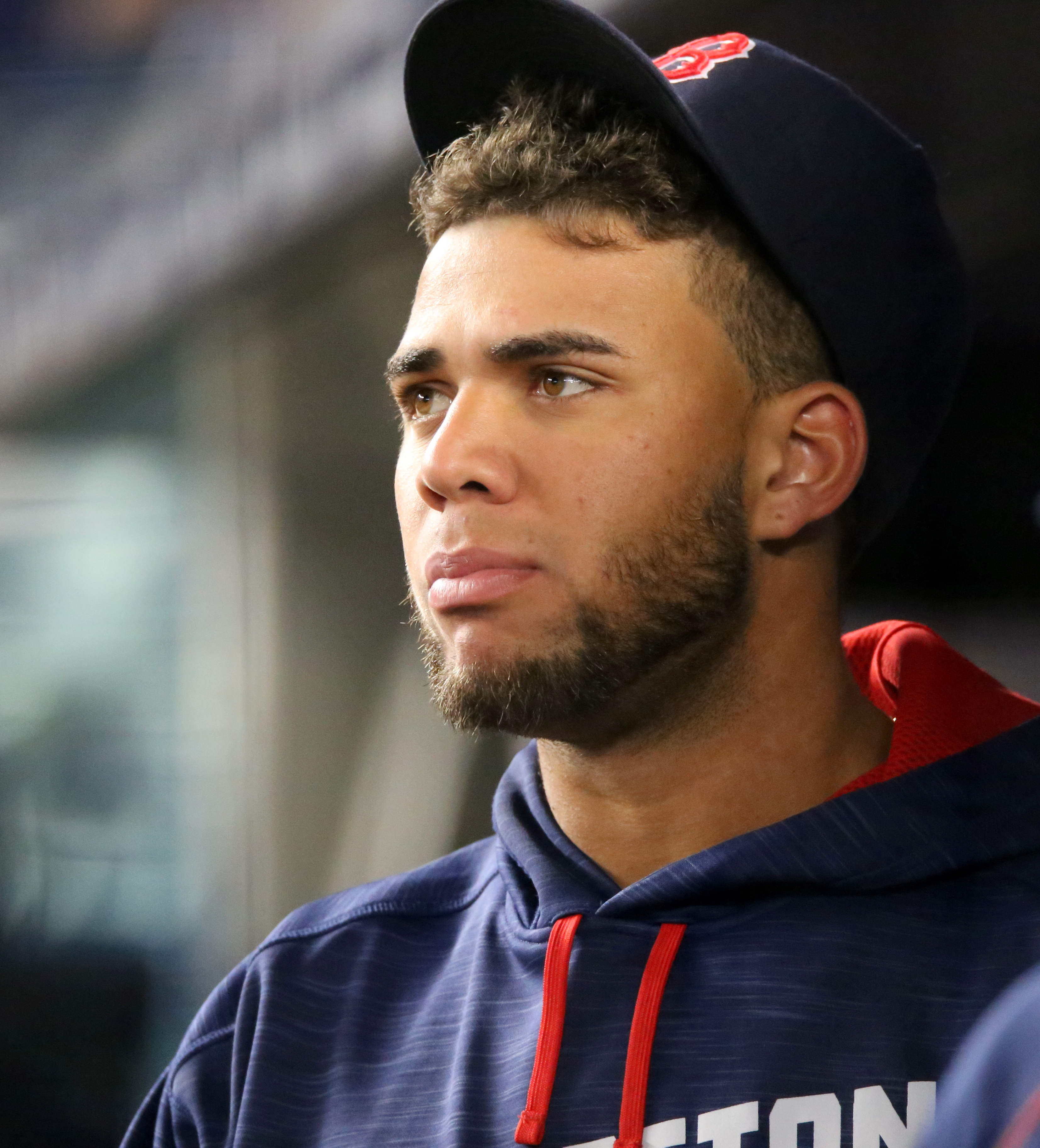 Red Sox prospect Yoan Moncada looks on from the dugout.